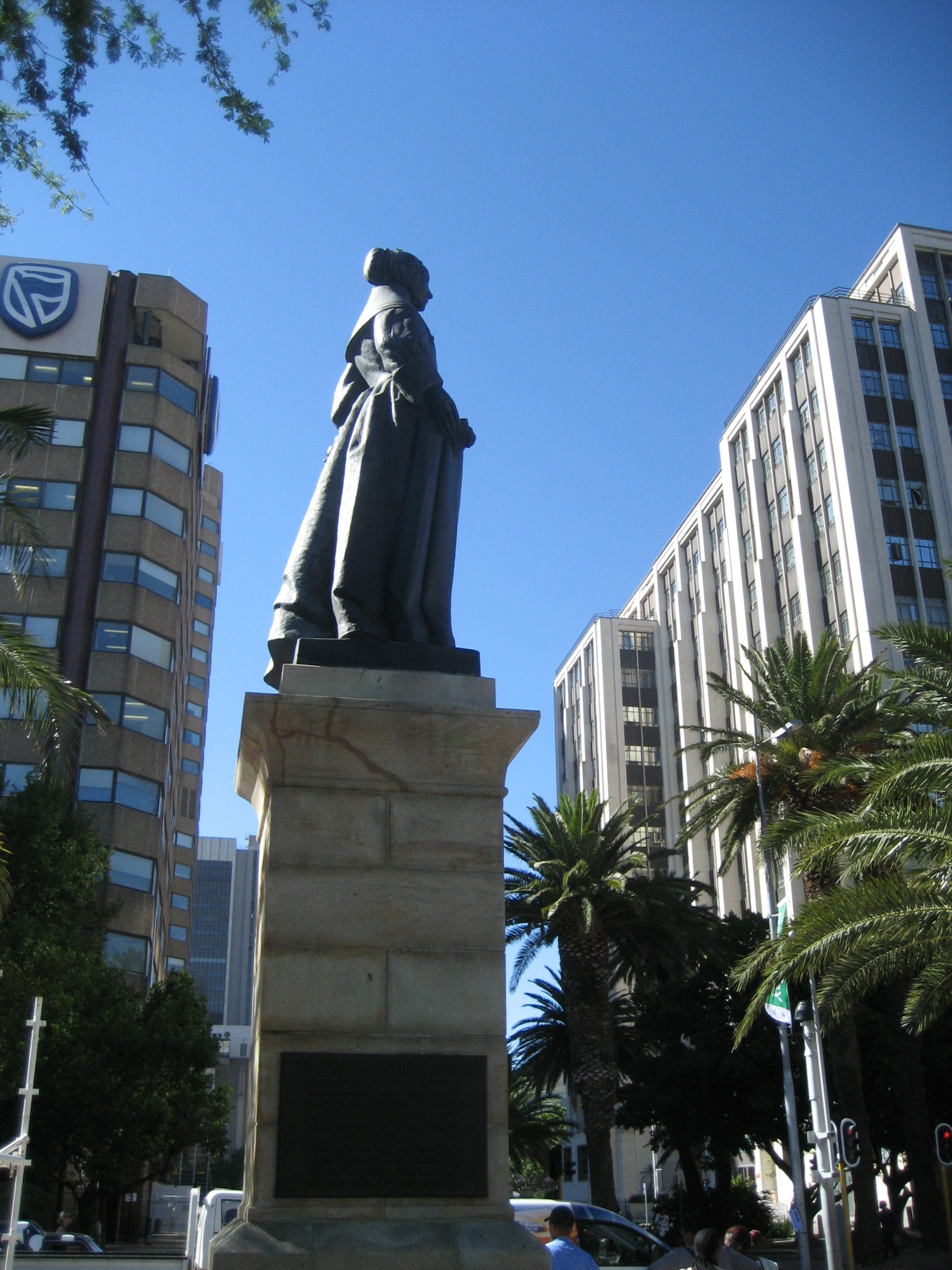 Statue of Marie de la Quellerie (Quevellerius), wife of Jan van Riebeeck. Heerengracht, Cape Town (South Africa). Original place: in the garden of the National Art Gallery in Die Tuine. Sculptor: Dirk Wolbers (1952/53). Unveiling by Dutch Prince Bernhard, 2 Oct. 1954